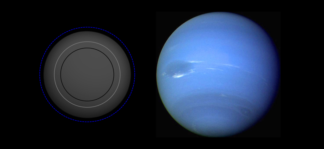 Comparison of several possible sizes for the exoplanet Gliese 581 b with the Solar System planet Neptune, using approximate models of planetary radius as a function of mass[1] for several possible compositions, based on mass reported in the Open Exoplanet Catalogue[2] as of 2010-09-30. Models include: water world with a rocky core, composed of 75% H2O, 3% Fe, 22% MgSiO3 hypothetical pure water (ice) planet, the largest size for Gliese 581 b without a significant H/He envelope rocky terrestrial "Earth-like" planet, composed of 67% Fe, 32.5% MgSiO3 hypothetical pure iron planet, Gliese 581 b's theoretical smallest size Gliese 581 b is not likely to be smaller than the iron planet, and will be considerably larger than the water planet if significant H or He is present. For non-transiting planets, all modeled sizes will be underestimates to the extent that the planet's actual mass is larger than the reported minimum mass. ↑ Seager, S.; M. Kuchner, C. A. Hier-Majumder and B. Militzer (2007). "Mass–radius relationships for solid exoplanets". The Astrophysical Journal 669: 1279–1297. Retrieved on 2010-08-27. ↑ Open Exoplanet Catalogue (2010-09-30). Retrieved on 2010-09-30.